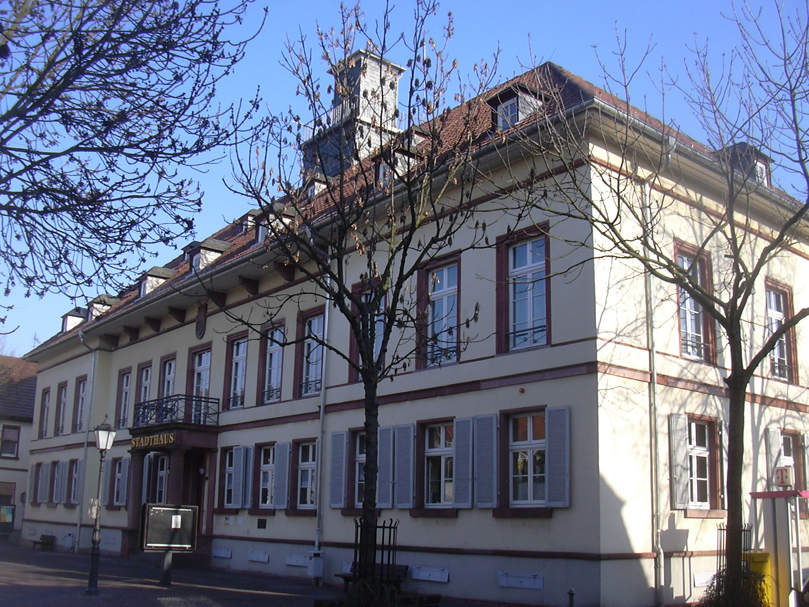 Gernsheim, old town hall